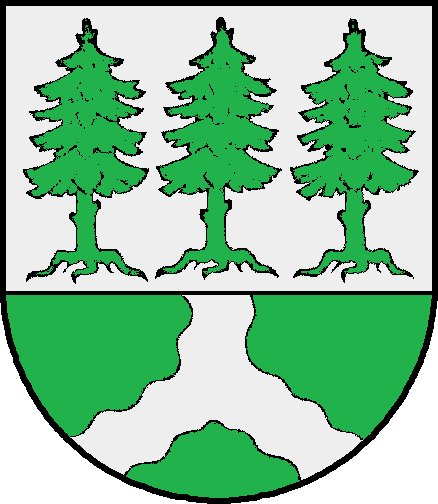 Coat of arms of the municipality Karlum in Schleswig-Holstein, Germany.